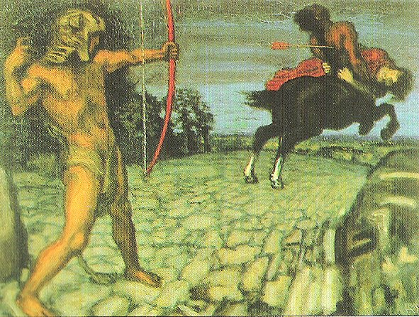 Painting of where Heracles kills the centaur Nessus to save Deianira.